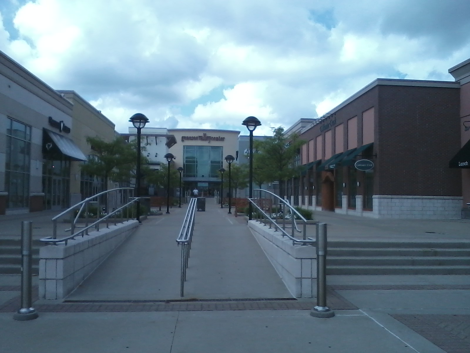 Genesee Valley Center, outdoor wing.